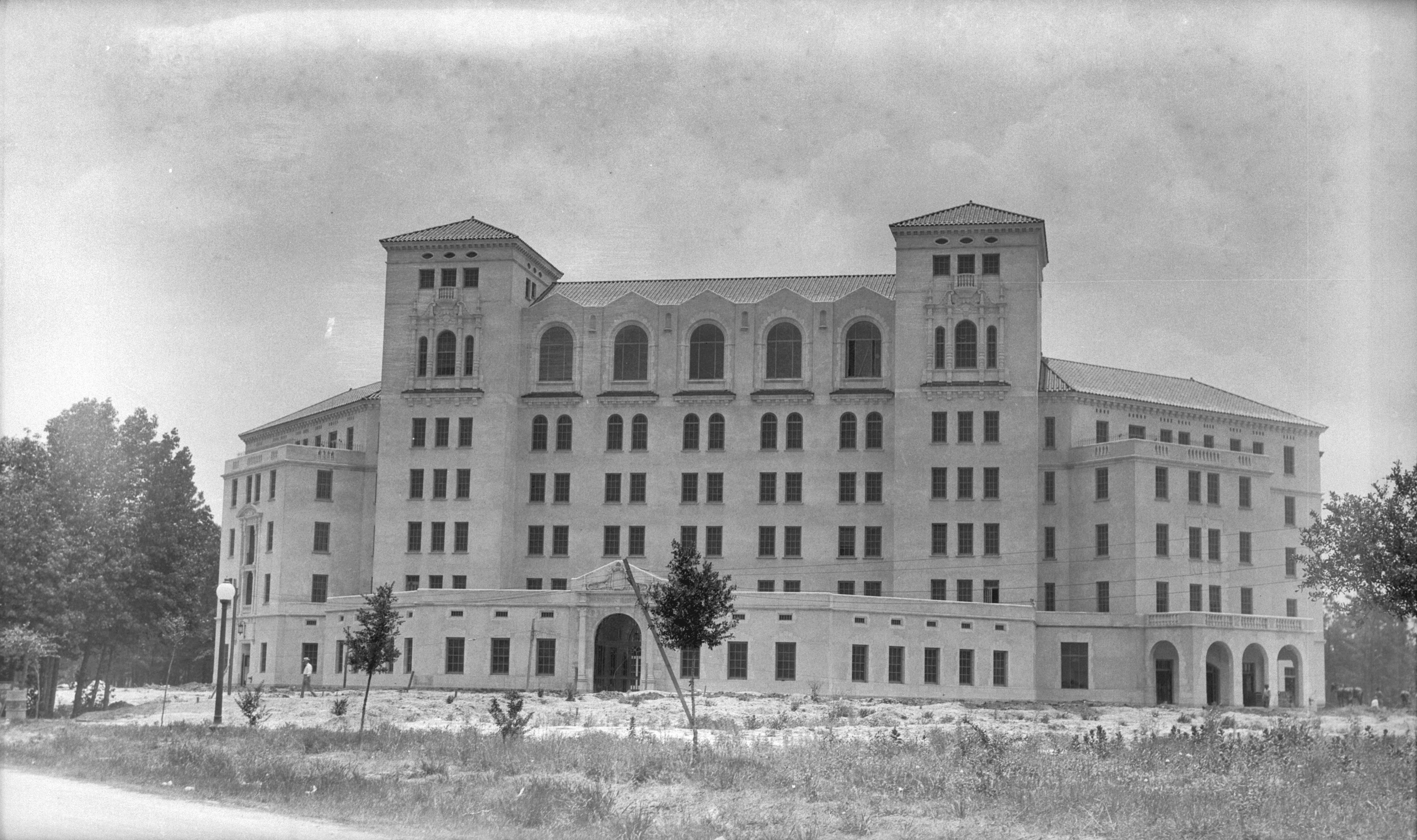 A Hermann Hospital building in the Rice Village area